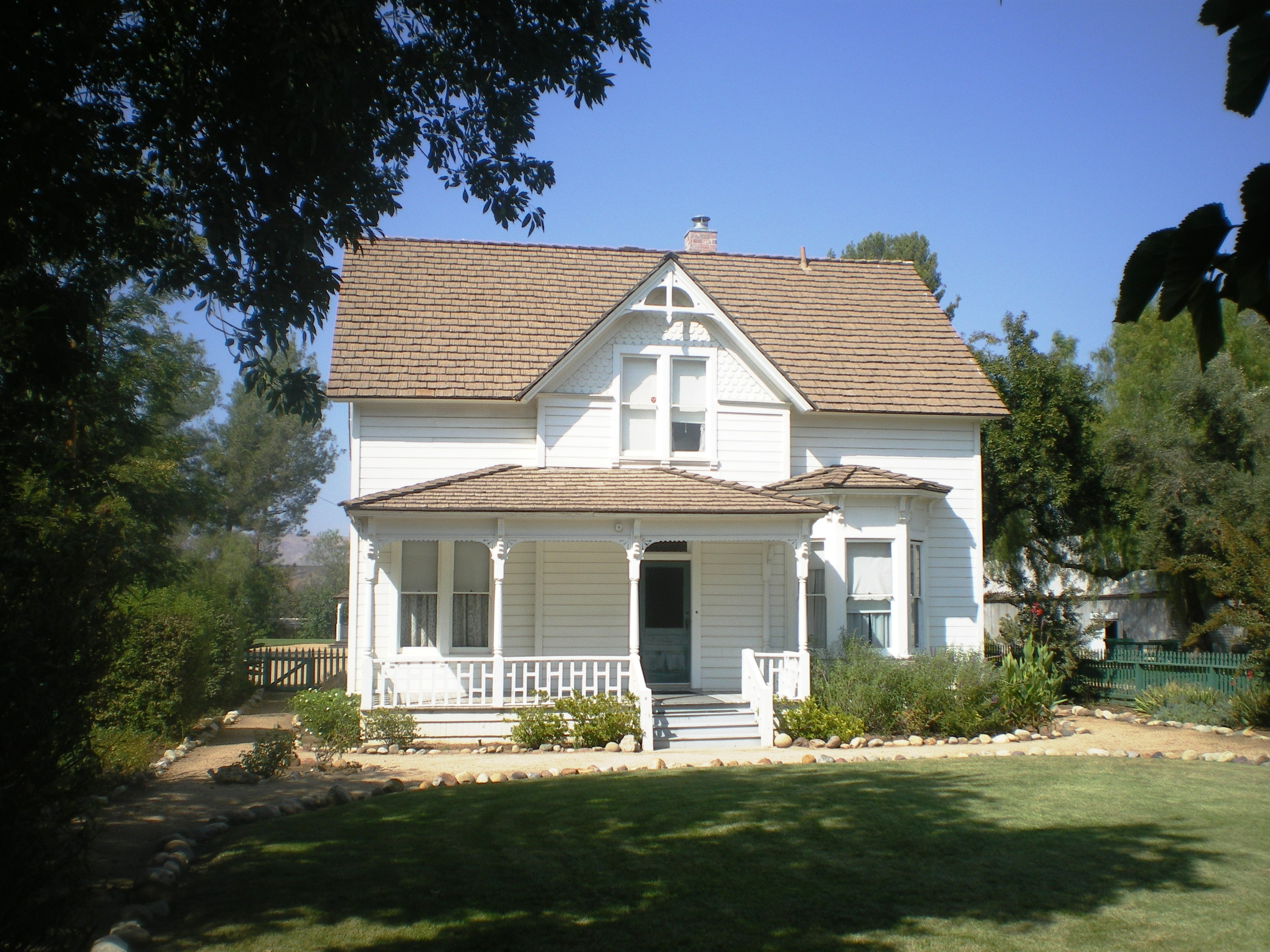 Strathearn House, 137 Strathearn Place, Simi Valley, California